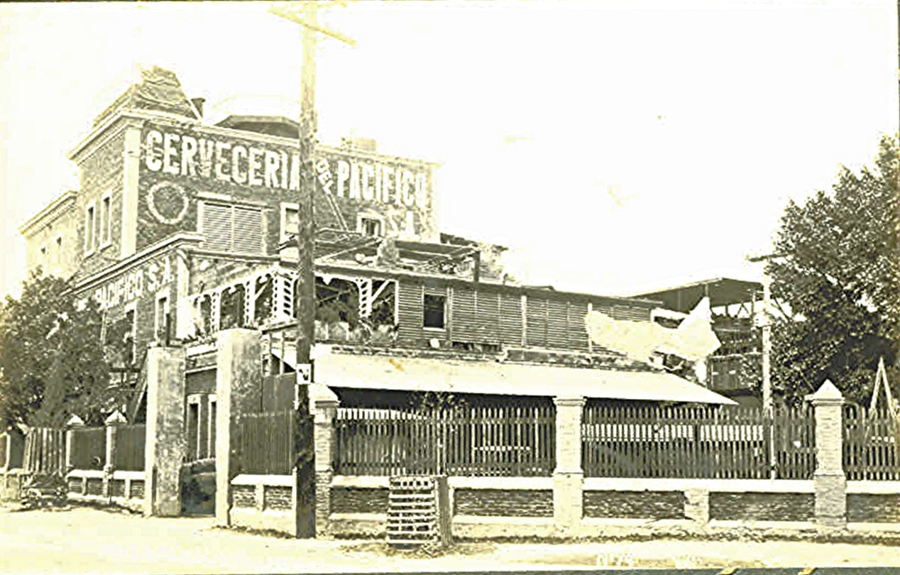 Mazatlán Antiguo